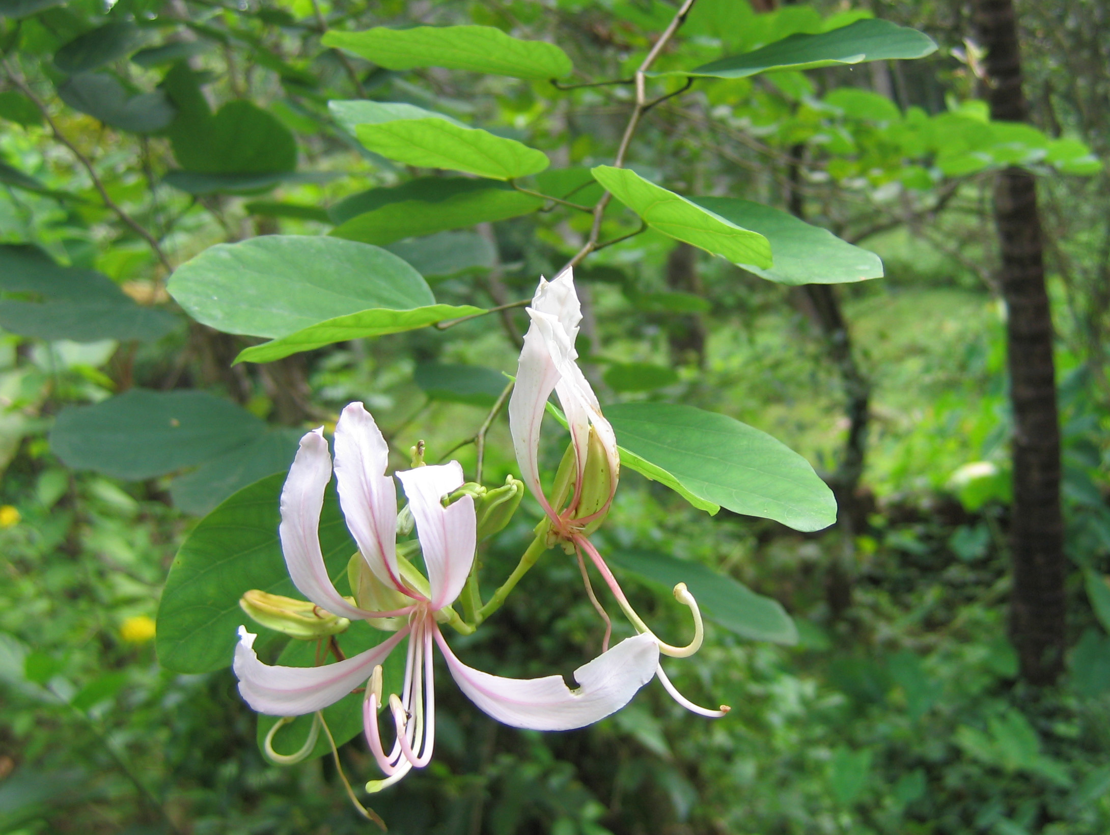 Bauhinia corymbosa